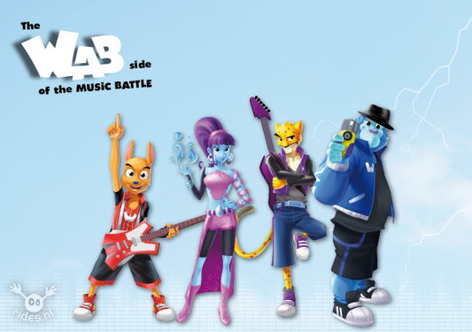 WAB